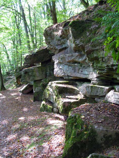 Caves of the of the dwarfs near Bad Kissingen (Germany)